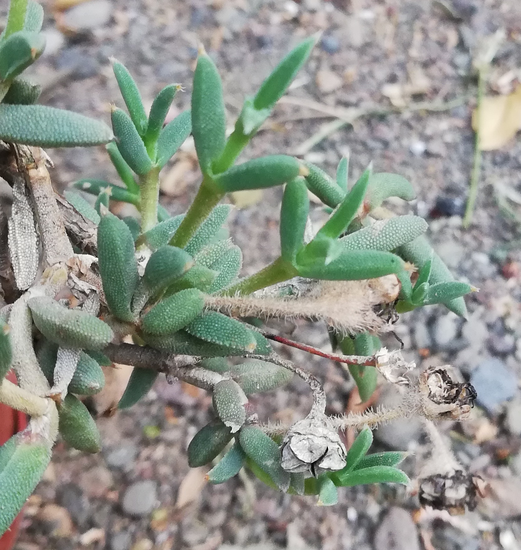 Trichodiadema gracile from the Potberg